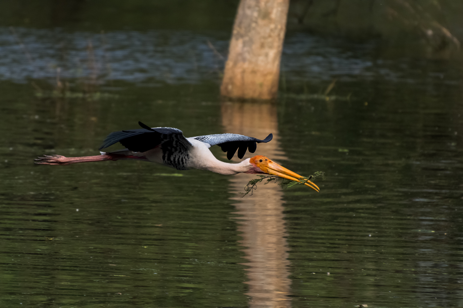 painted stork gathering nesting material